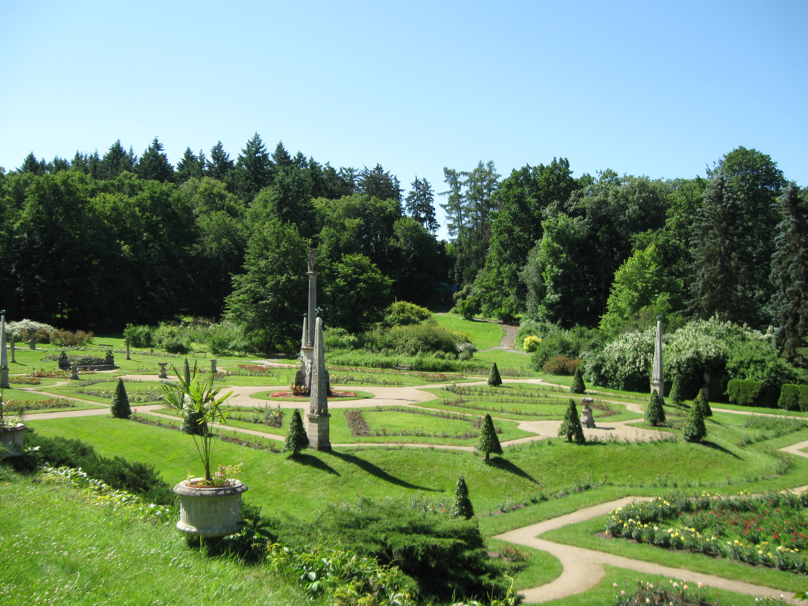 Rose Garden at Konopiště Palace, Benešov District, Czech Republic.